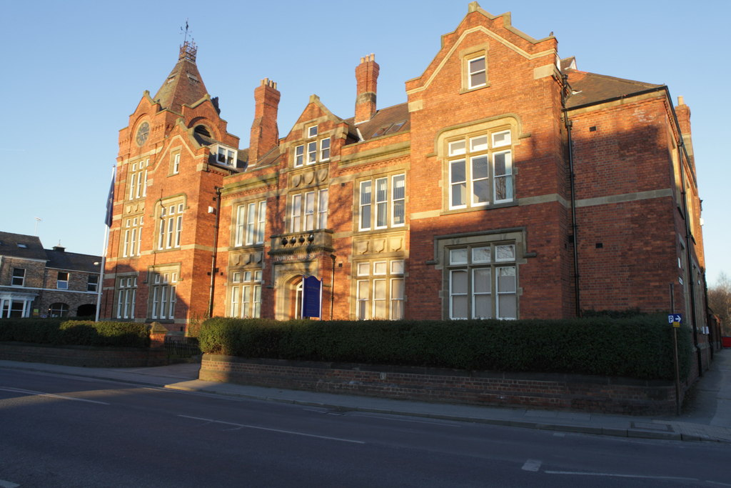 Tower House, Fishergate, York This was previously the War Office, or Northern Command Headquarters, for more details or